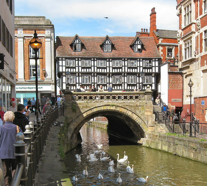 The High Bridge on Lincoln High Street dates from 16th century and carries the road, once one of the two main routes through the centre of Lincoln, over the River Witham. The area is now pedestrianised. The bridge is the only one in Britain still in use today with a secular a medieval building still standing on it and incorporated in its structure are the stone ribs of what is believed to be the second oldest masonry arch bridge in the country. Built of stone with later brickwork, the bridge has been extended in various stages - including an extension to accommodate a chapel in 1235 and a range of timber buildings in 1540-50. The original timber frame house was stripped down to the bare timbers in 1901-2 and completely restored to what is seen here.